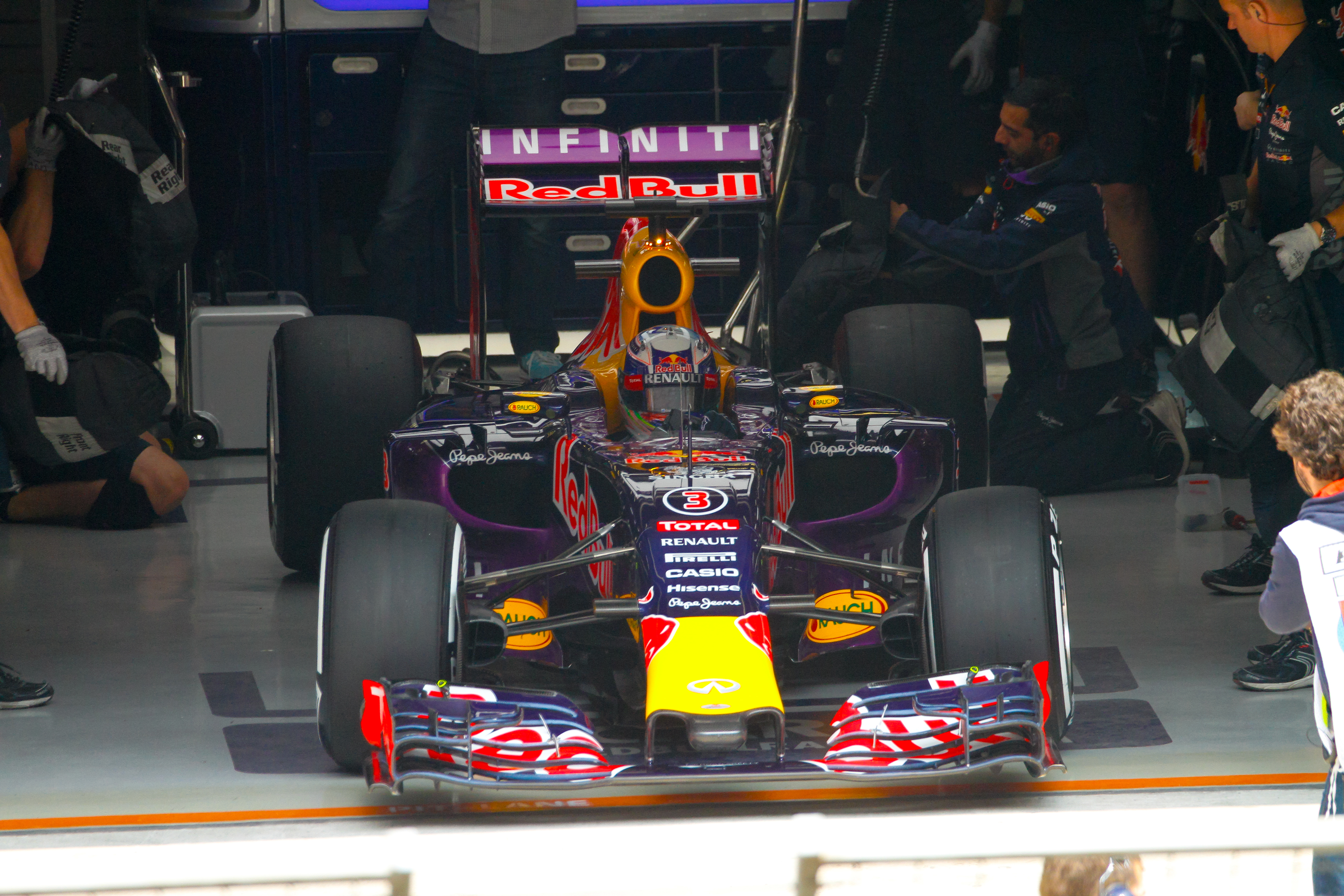 Daniel Ricciardo in the pits at 2015 Chinese Grand Prix